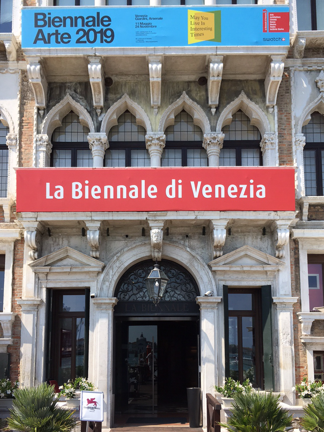 La Biennale di Venezia 2019 - from 21th 06. until 06th 10.2019 - Arte, Architettura, Cinema, Danza, Musica, Teatro, Archivio Storico, Italy, European Union